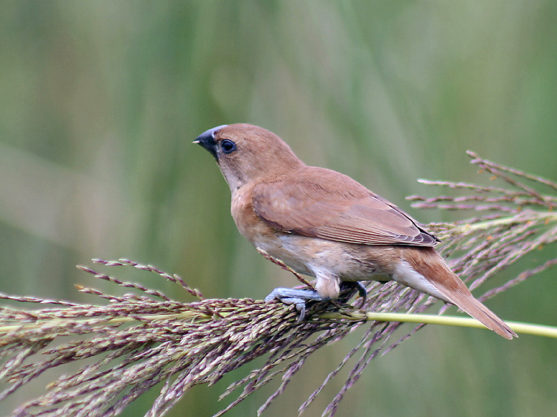 Scaly-breasted Munia Lonchura punctulata in Kolkata, West Bengal, India.